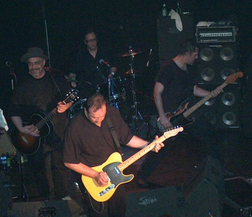 The Smithereens in 2005